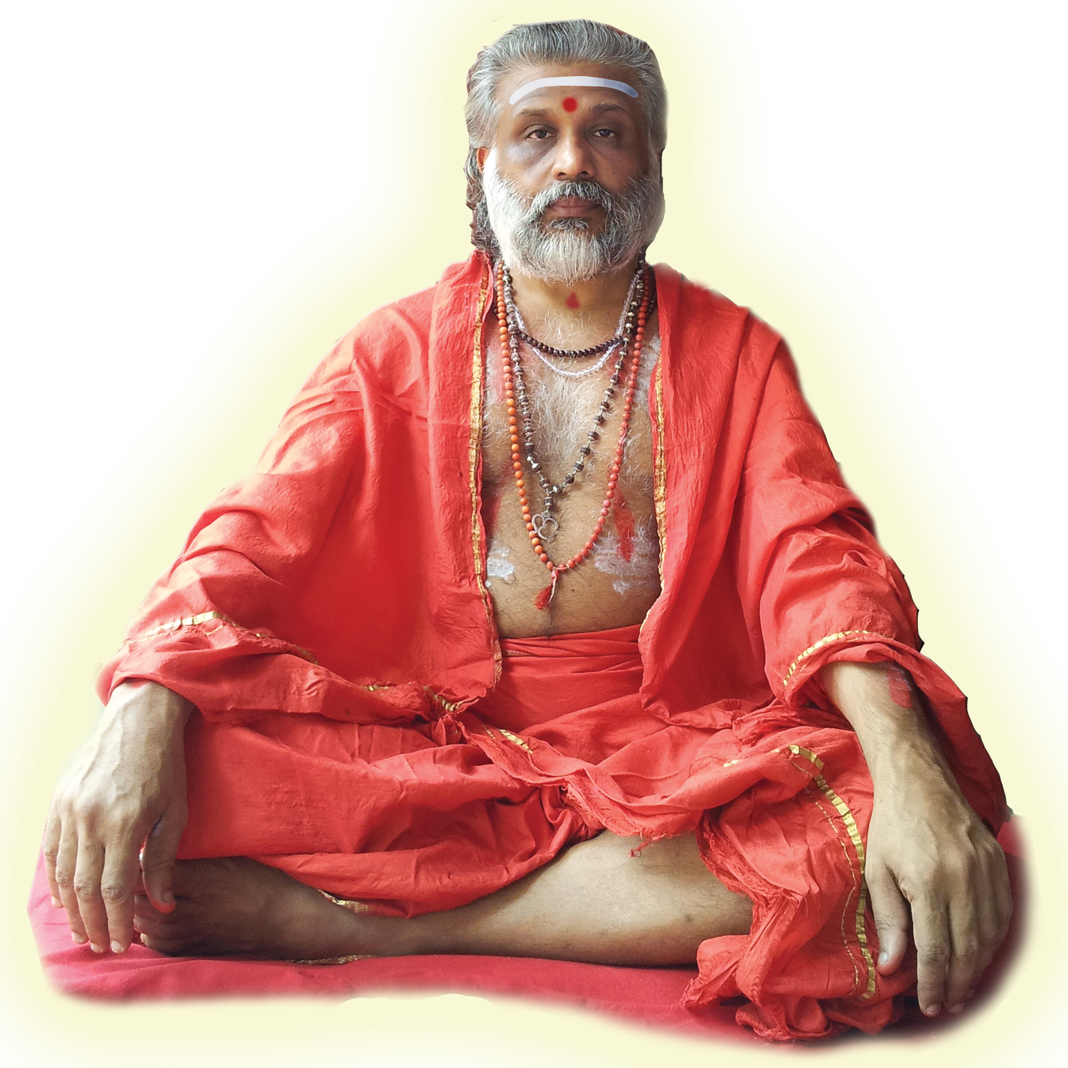 Swamijy - During the conclusion of the 12 year long Chandiyaaga at 2013